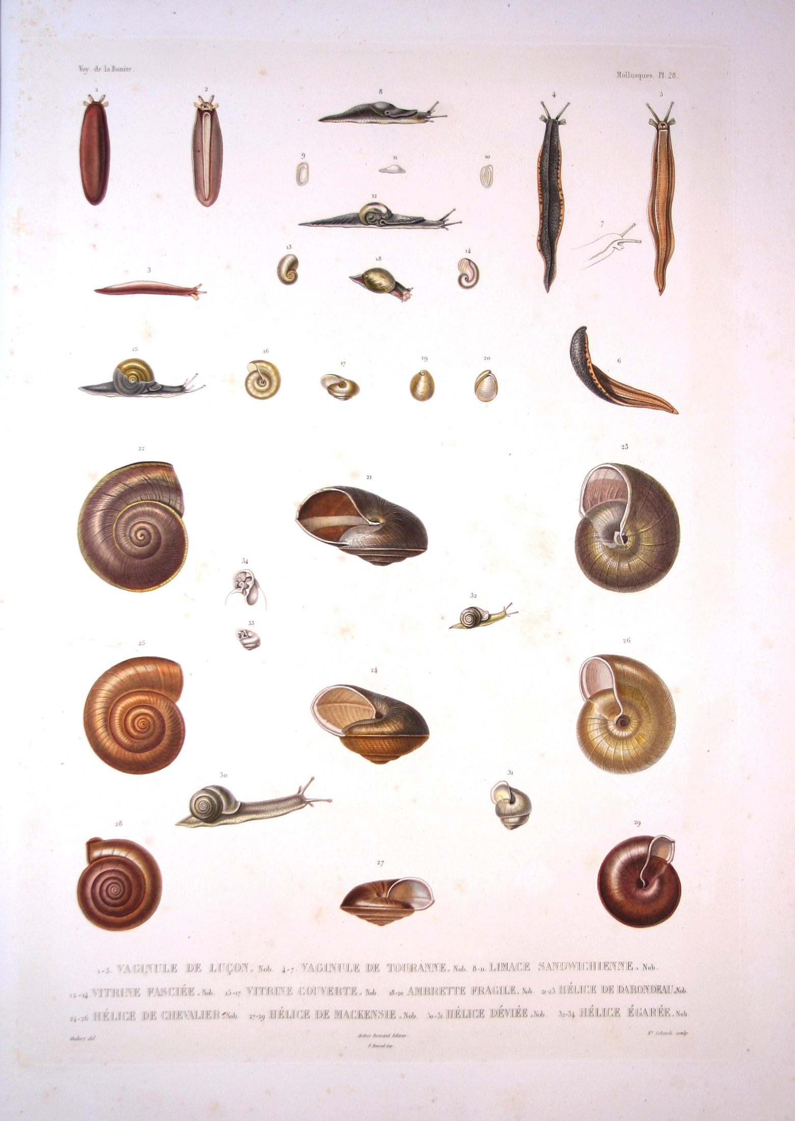 Plate with gastropods.